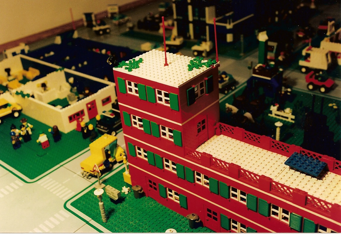 A residential complex in Lego-Chicagos East Van Buren Street picture taken by myself